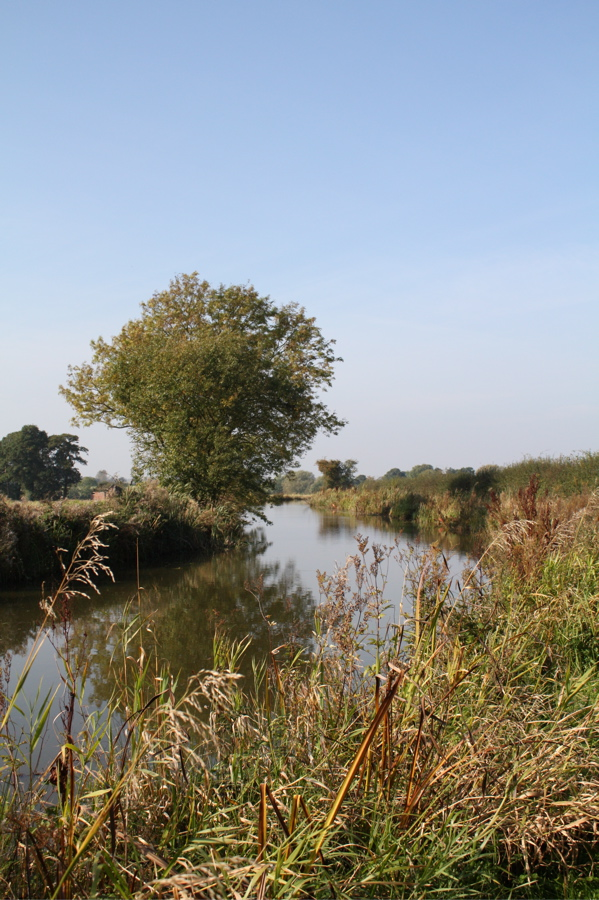 Section of Ashby Canal looking north toward the direction of Snarestone village in Leicestershire. Shot taken between canal bridges 59 and 60